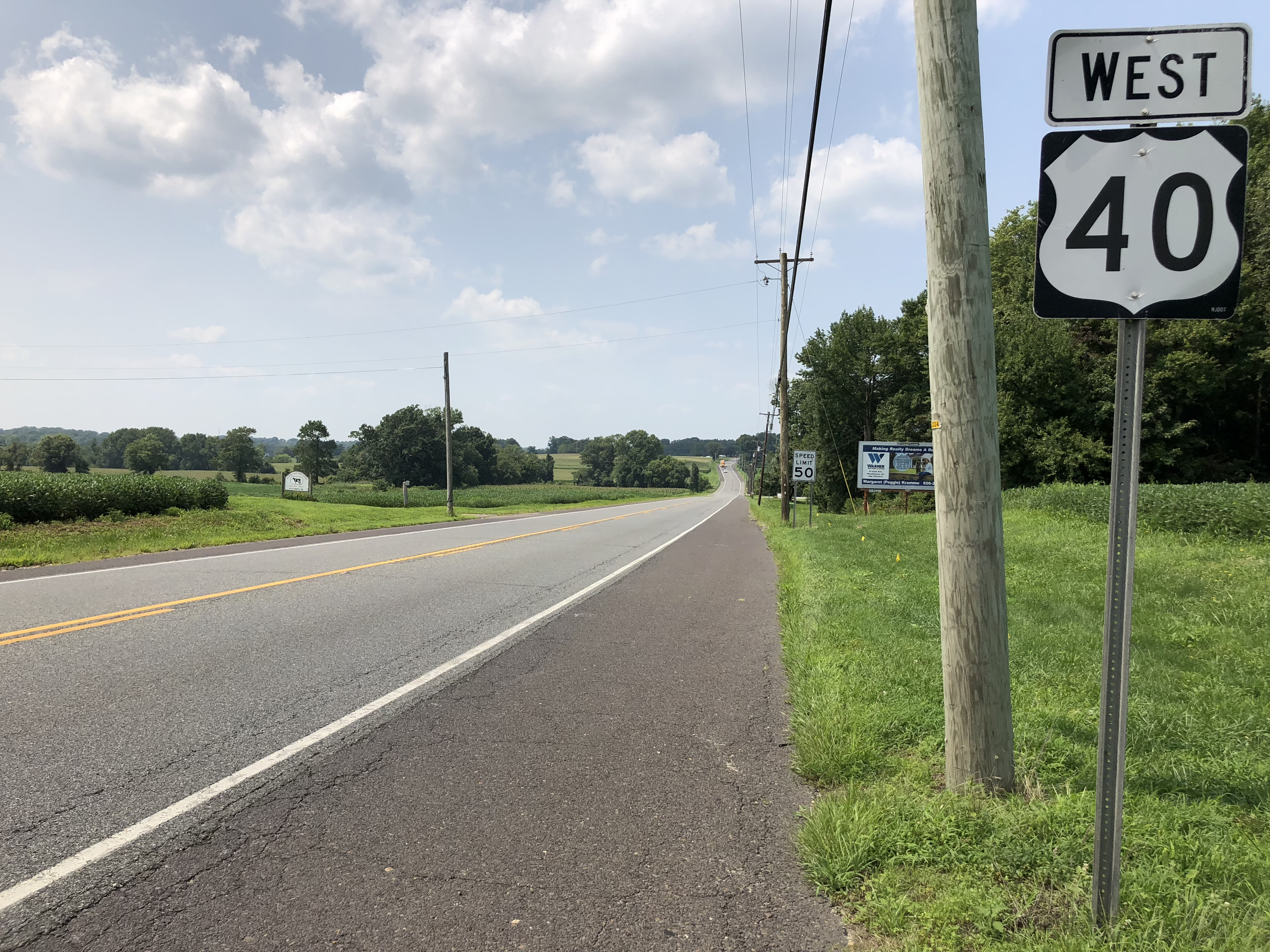 View west along U.S. Route 40 (Harding Highway) just west of Salem County Route 619 (Glassboro Road) in Pilesgrove Township, Salem County, New Jersey